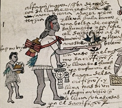 Codex Mendoza f. 63r detail: priest and acolyte carrying mind-blowing requisites for a nocturnal sacrifice